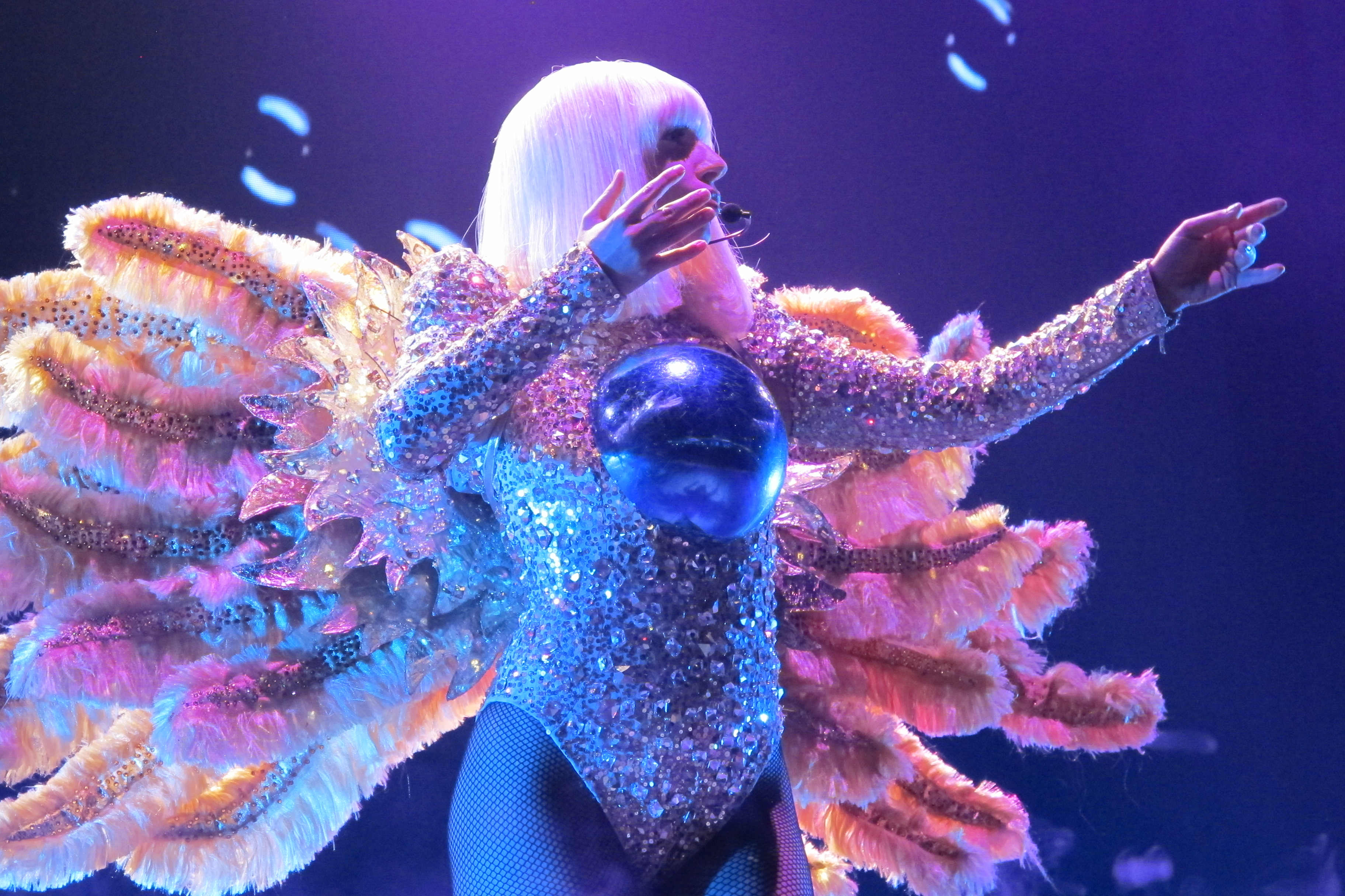 IMG_8144 Lady Gaga performing at ArtRave: The Artpop Ball of San Diego